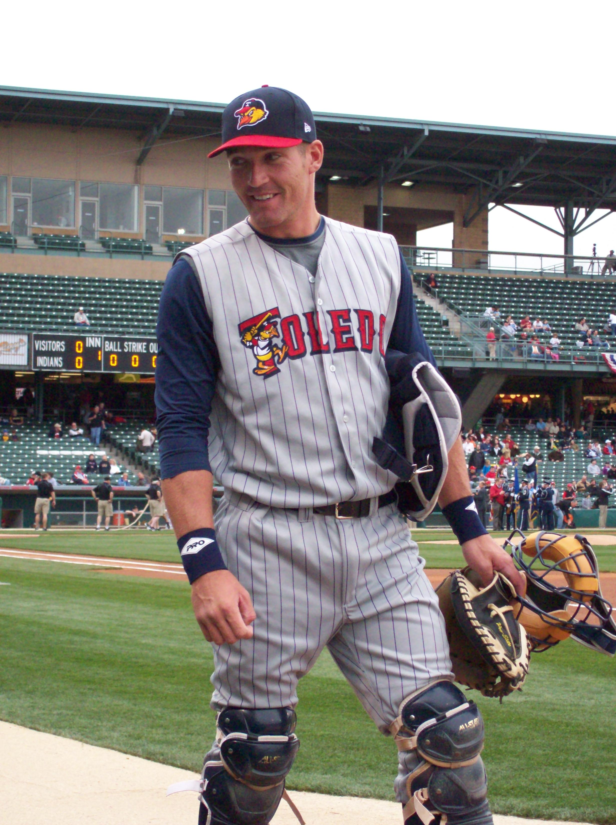 Dusty Ryan of the Toledo Mud Hens prior to a game at Victory Field, Indianapolis, April 9, 2009, taken by Tim O'Brien 08:27, 26 April 2009 . . Skatefan . . 2,464×3,296 (820 KB)